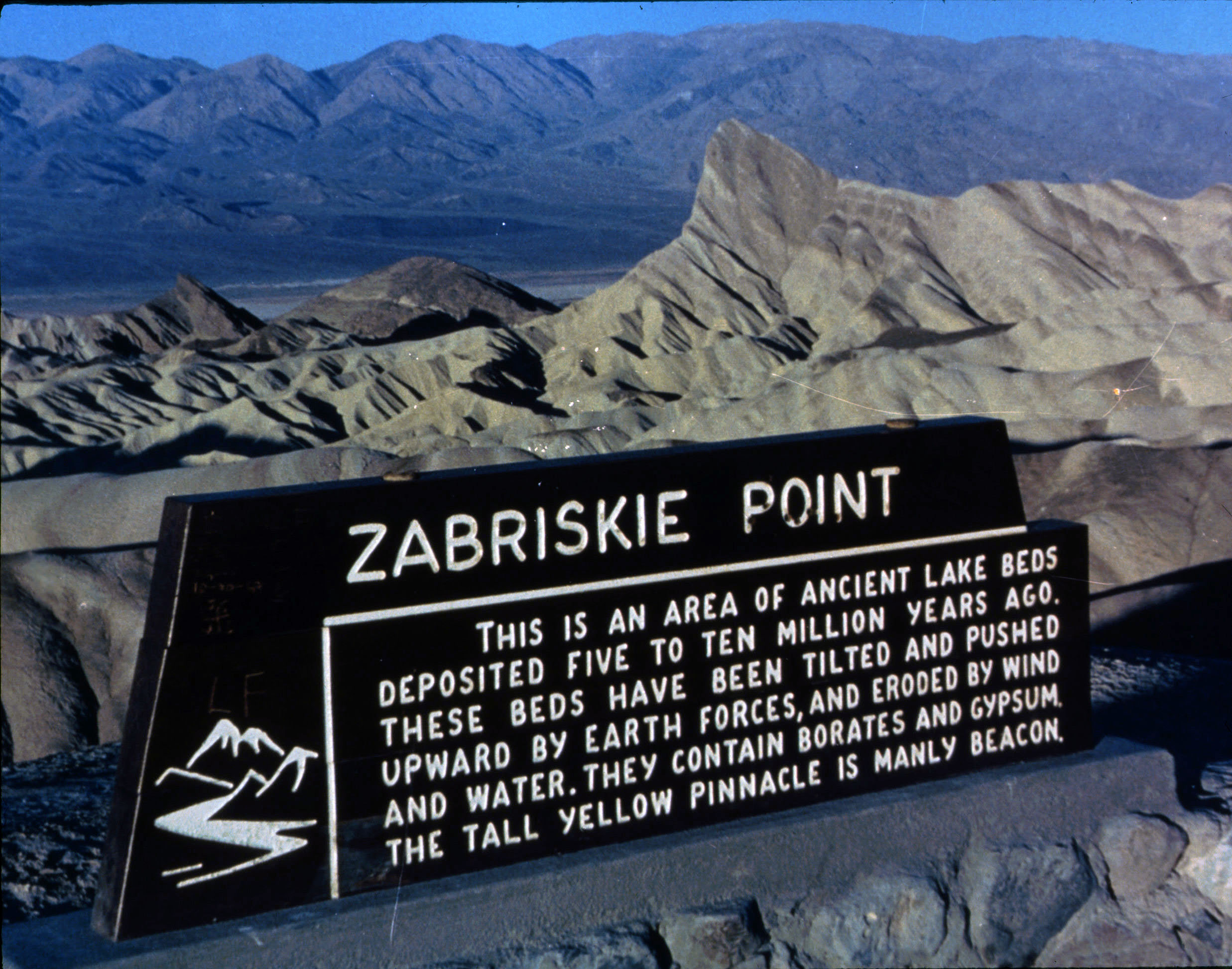 Zabriskie Point sign